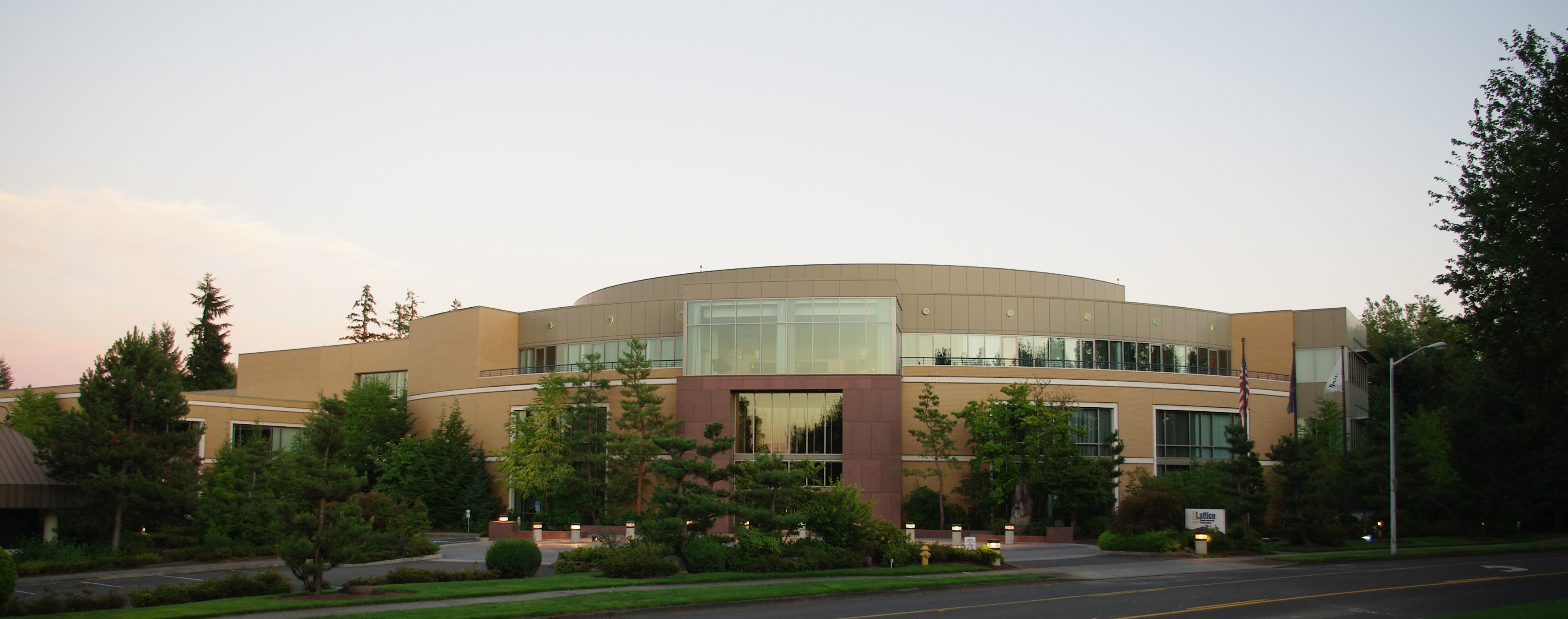 Lattice Semiconductor's headquarters in Hillsboro, Oregon.